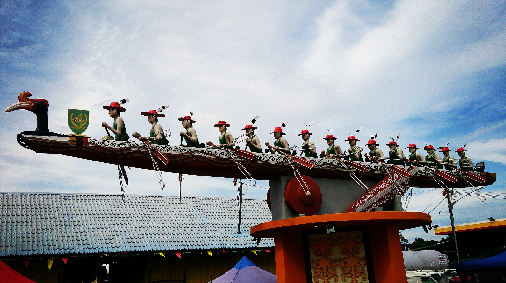 This is the landmark of Marudi Town. It's located at Marudi Town Square. It represents the most historical activity of Baram, which is the Baram Regatta that started since 1899.